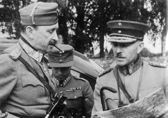 C.G.E. Mannerheim and Lennart Oesch in military training in the Karelian Isthmus in August 1939.